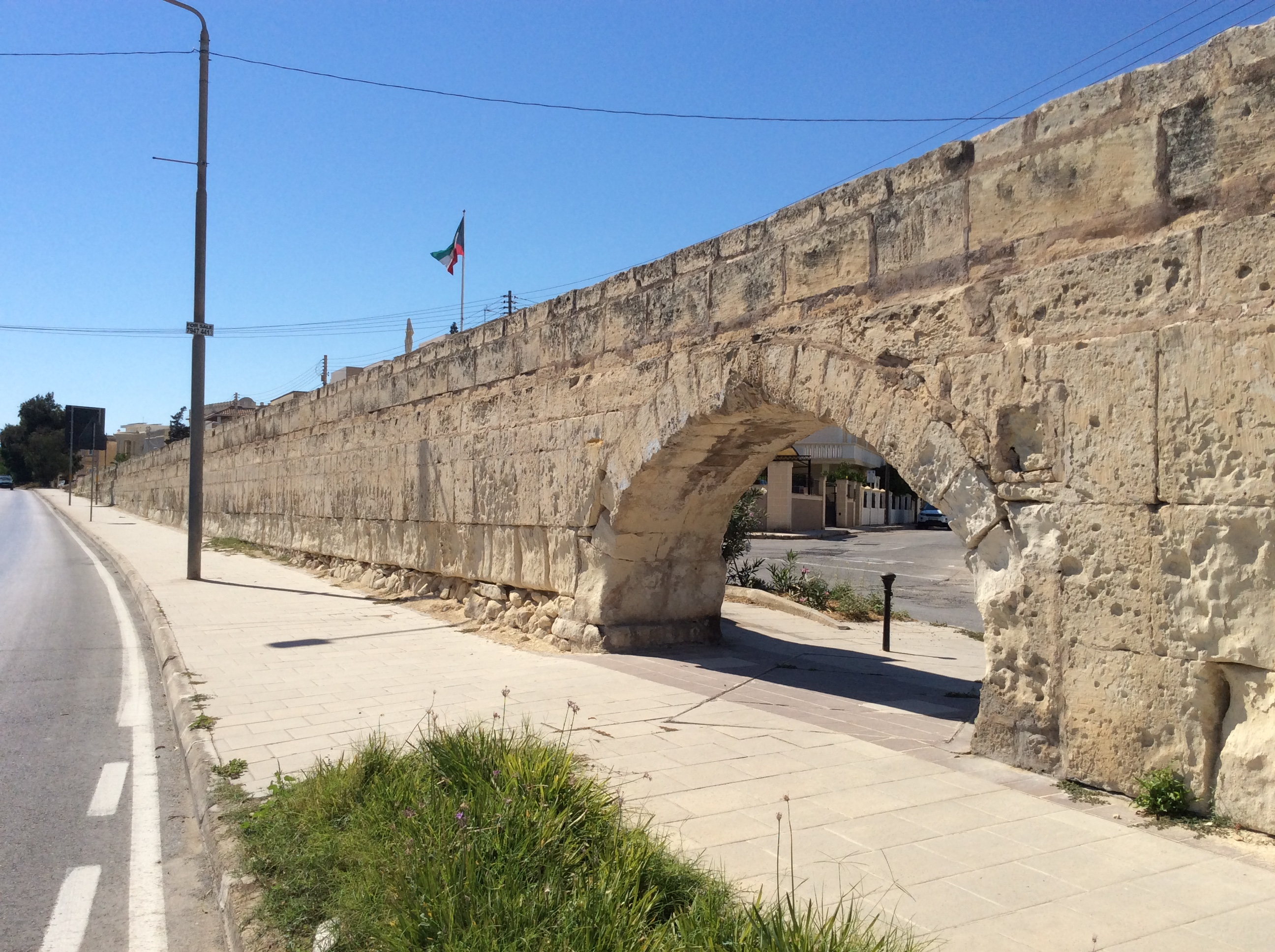 Lonely aqueduct arch